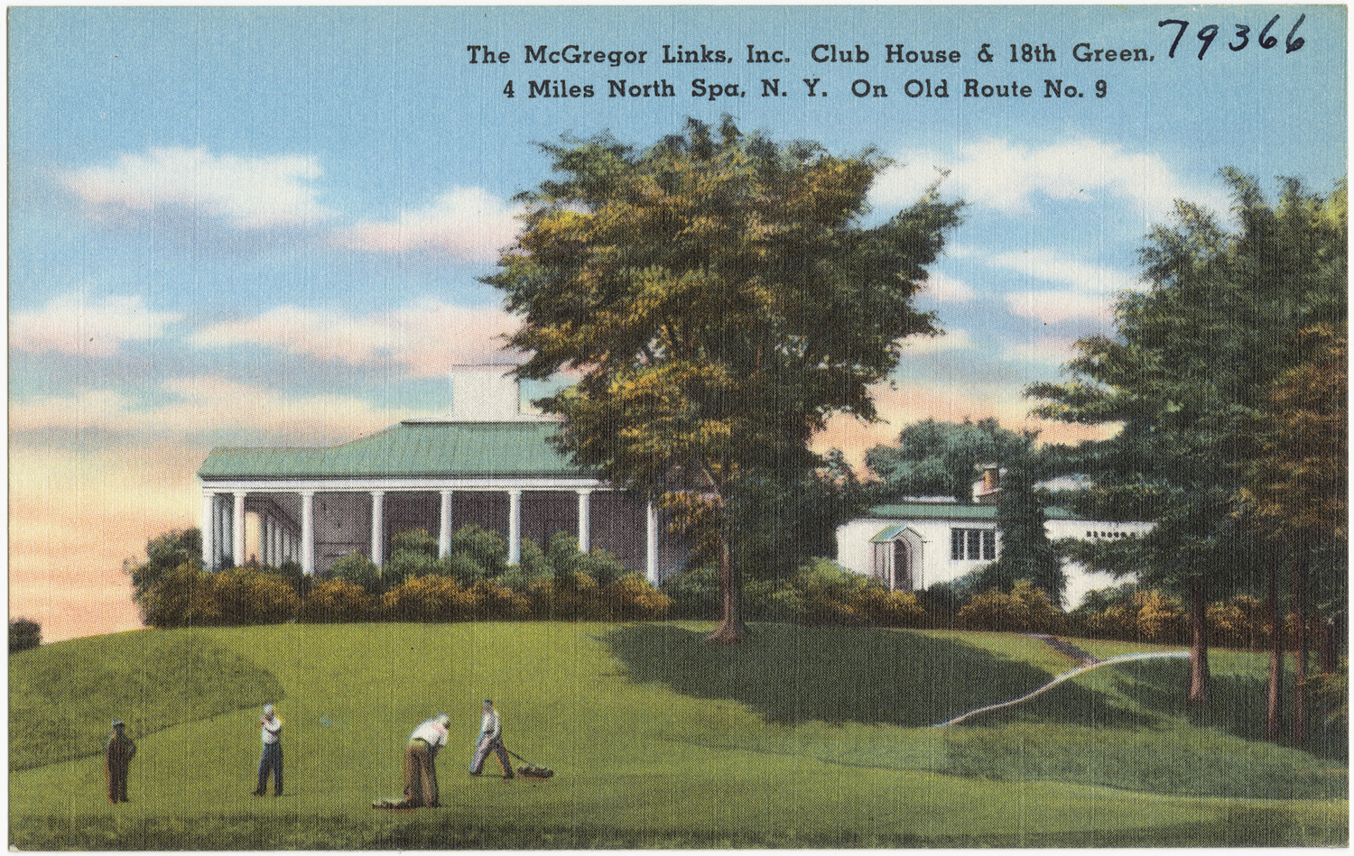 McGregor Links, Saratoga Springs (Wilton), New York from a 1930s-era postcard File name: 06_10_005910 Title: The McGregor Links, Inc. club house & 18th green, 4 miles north Spa, N. Y. On old Route No. 9 Created/Published: Date issued: 1930 - 1945 (approximate) Physical description: 1 print (postcard) : linen texture, color ; 3 1/2 x 5 1/2 in. Genre: Postcards Subjects: Sports & recreation facilities Notes: Title from item. Collection: The Tichnor Brothers Collection Location: Boston Public Library, Print Department Rights: No known restrictions